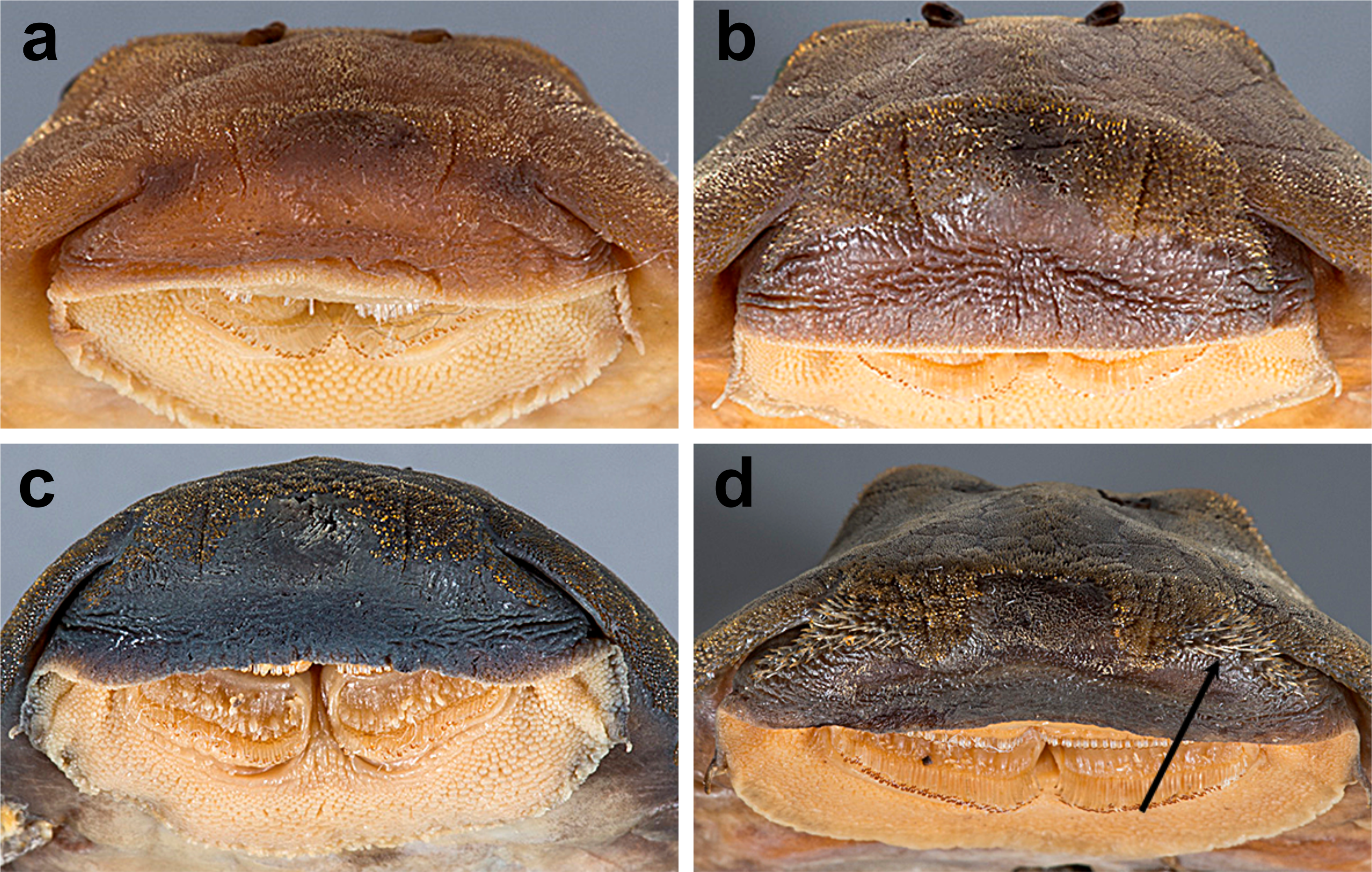 Fig 7. Anteroventral view of snout of Guyanancistrus members. Guyanancistrus brevispinis: a: MHNG 2108.014, paratype, 89.1 mm SL; b: MHNG 2673.034, 107.7 mm SL; c: MHNG 2723.007, 137.7 mm SL; G. niger: d: MHNG 2722.089, 158.5 mm SL. An arrow indicates enlarged odontodes on the anterodorsal edge of upper lip.